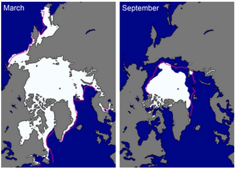 Sea ice extent in March 2013 (left) and September 2013 (right), illustrating the respective monthly averages during the winter maximum and summer minimum extents. The magenta lines indicate the median ice extents in March and September, respectively, during the period 1981-2010. Note that the median ice extents are computed over a different time interval than the one (1979-2000) used in previous Arctic Report Cards.